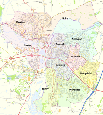 A map of the wards of Tamworth Borough.